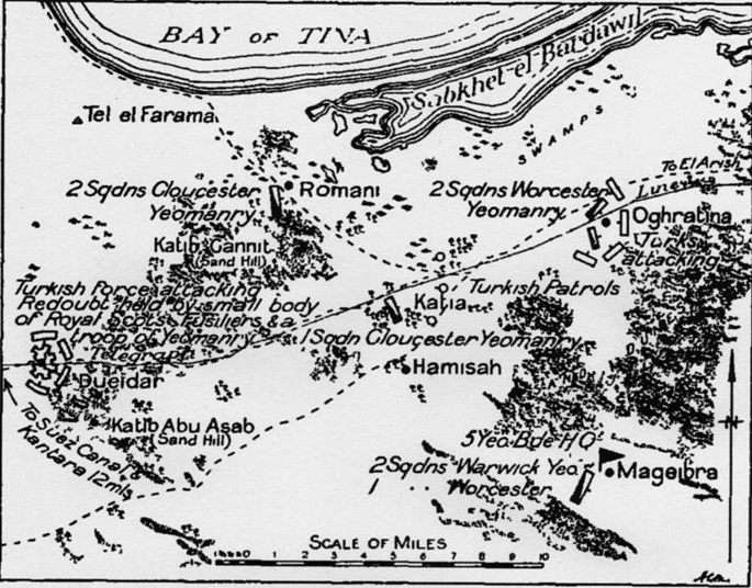 Map of the fighting around Katia, in the Sinai, on 23 April 1916. The map shows the position of the 5th Yeomanry Brigade and the Turkish attack that took place around 05:30 h